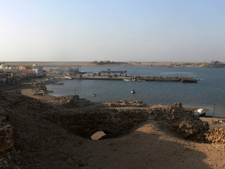 Kamaran Island. View of the harbour with pier and town. Picture taken in October 2007 and uploaded on Panoramio.